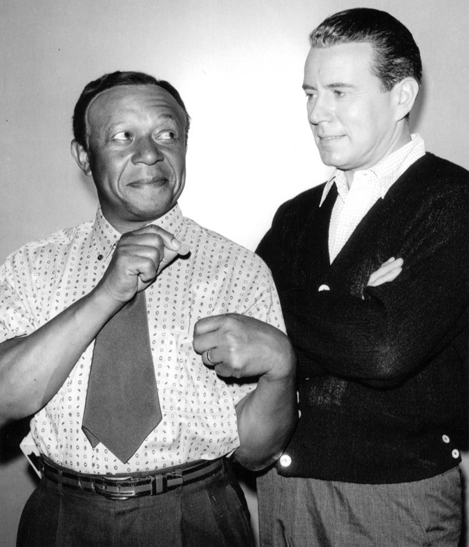 Publicity photo from Bachelor Father. Pictured are Rochester (Eddie Anderson) and Bentley Gregg (John Forsythe). In this episode, Bentley borrows Rochester from Jack Benny, hoping to learn how Benny can be so thrifty.